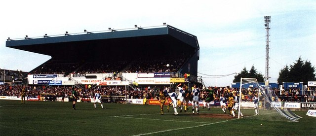 The Memorial Stadium in Bristol